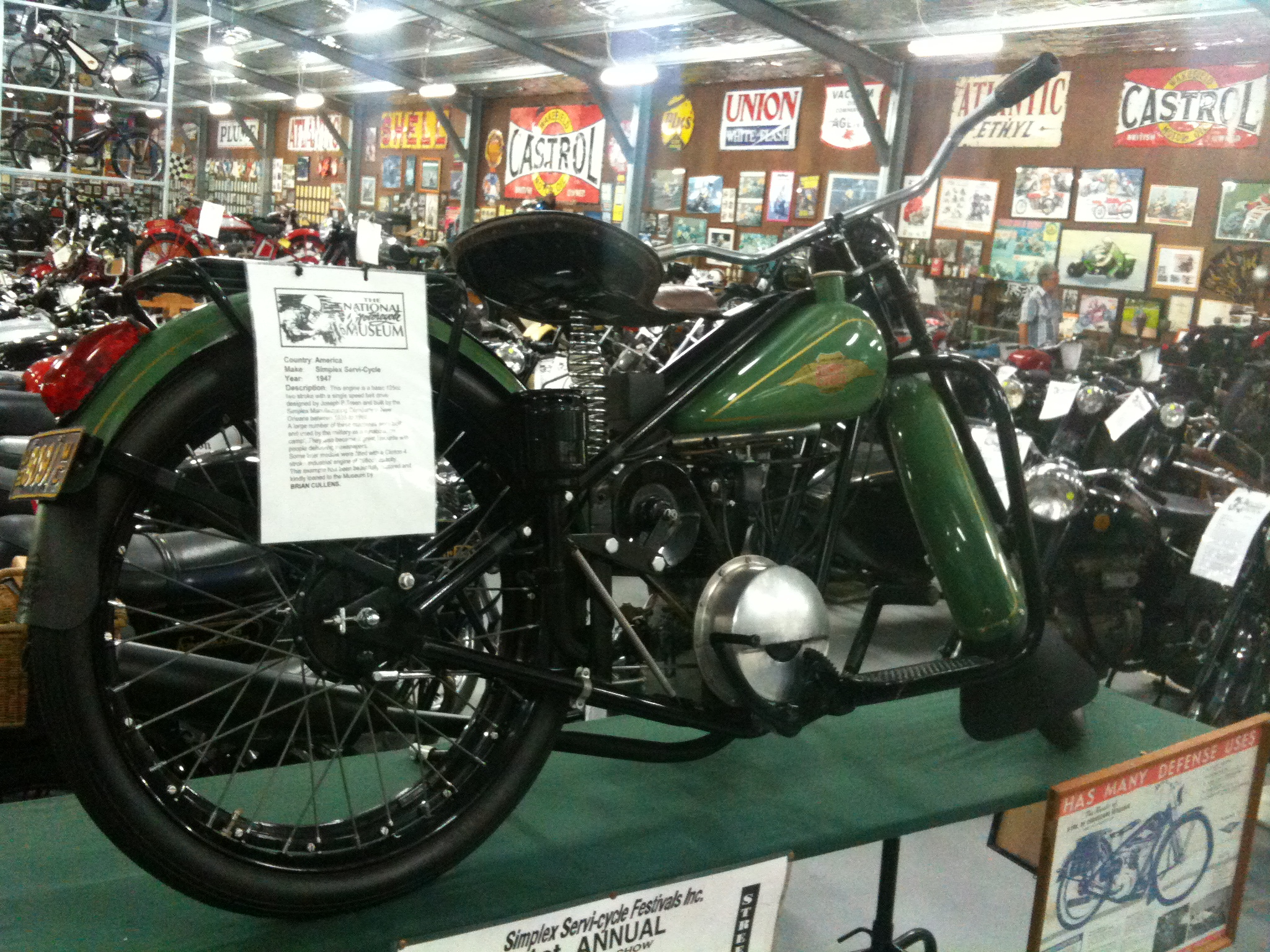 Simplex Servi-Cycle 1947 125 cc two stroke single speed belt drive designed by Joseph P Treen image from the National Motor Museum, Nabiac NSW Australia